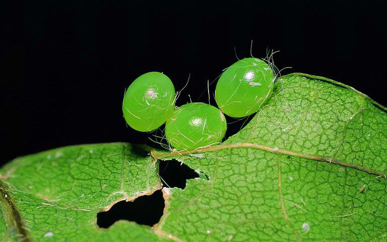 Eggs of Marumba quercus